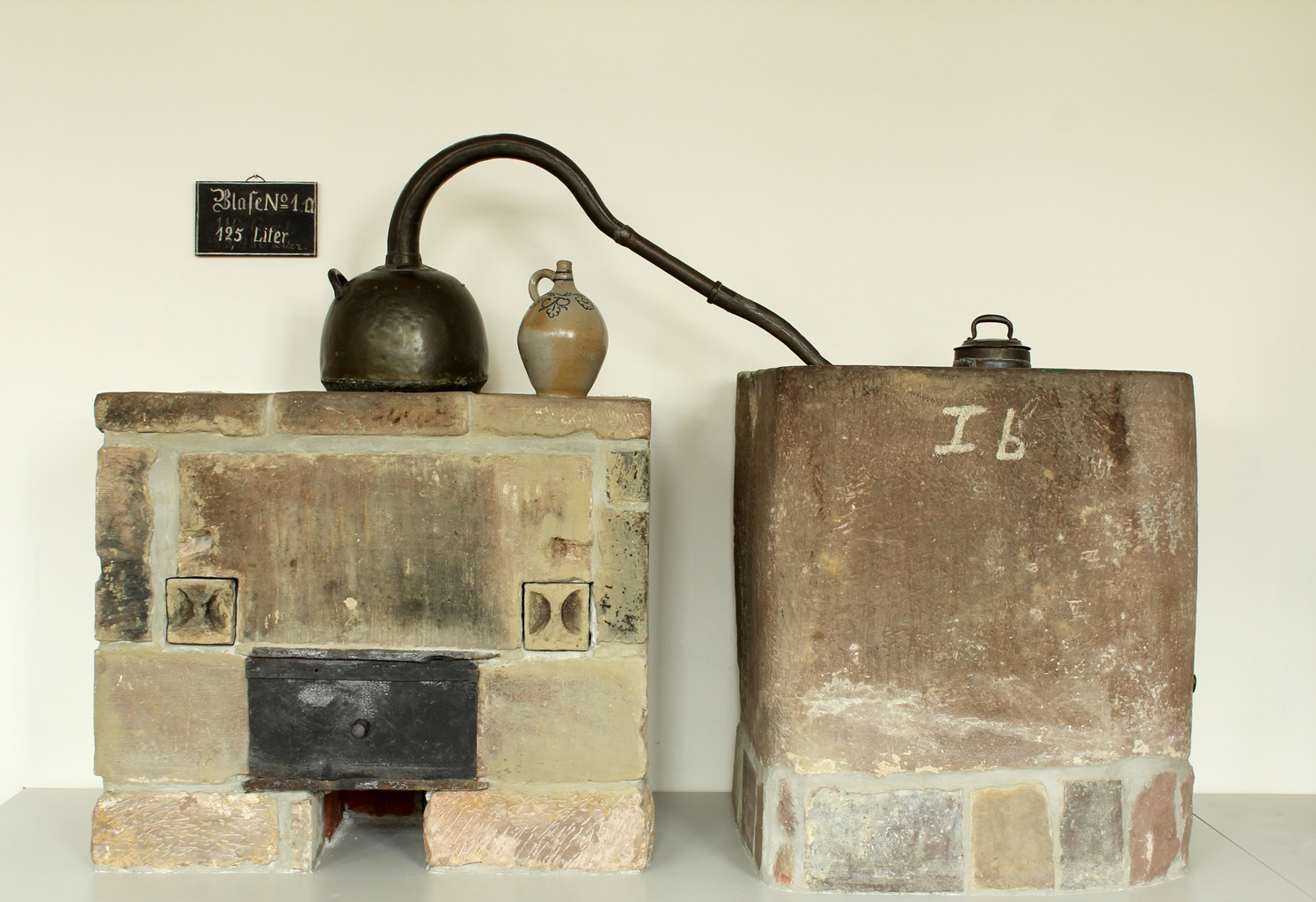 Destillery "Moos" from Niederweiler/Eifel, 18th century